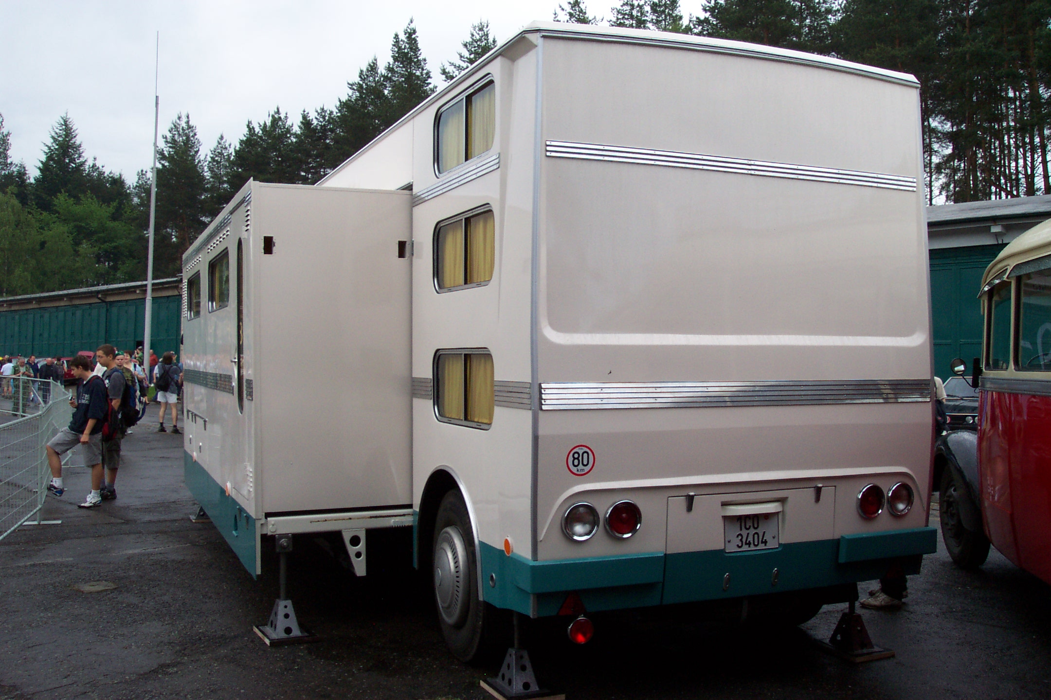 Renovated bus type Karosa ŠD 11, of the company of ČSAD Jihotrans with trailer - Rotelbus, the special trailer sleeping car